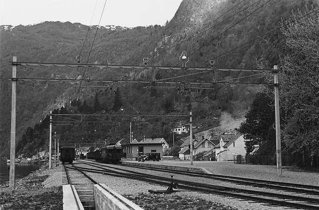 Granvin Station on the Hardanger Line in Granvin, Norway, in 1939